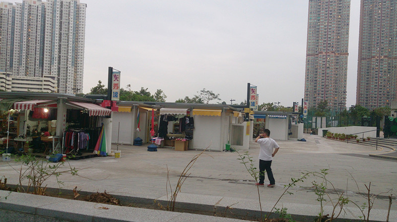 shops